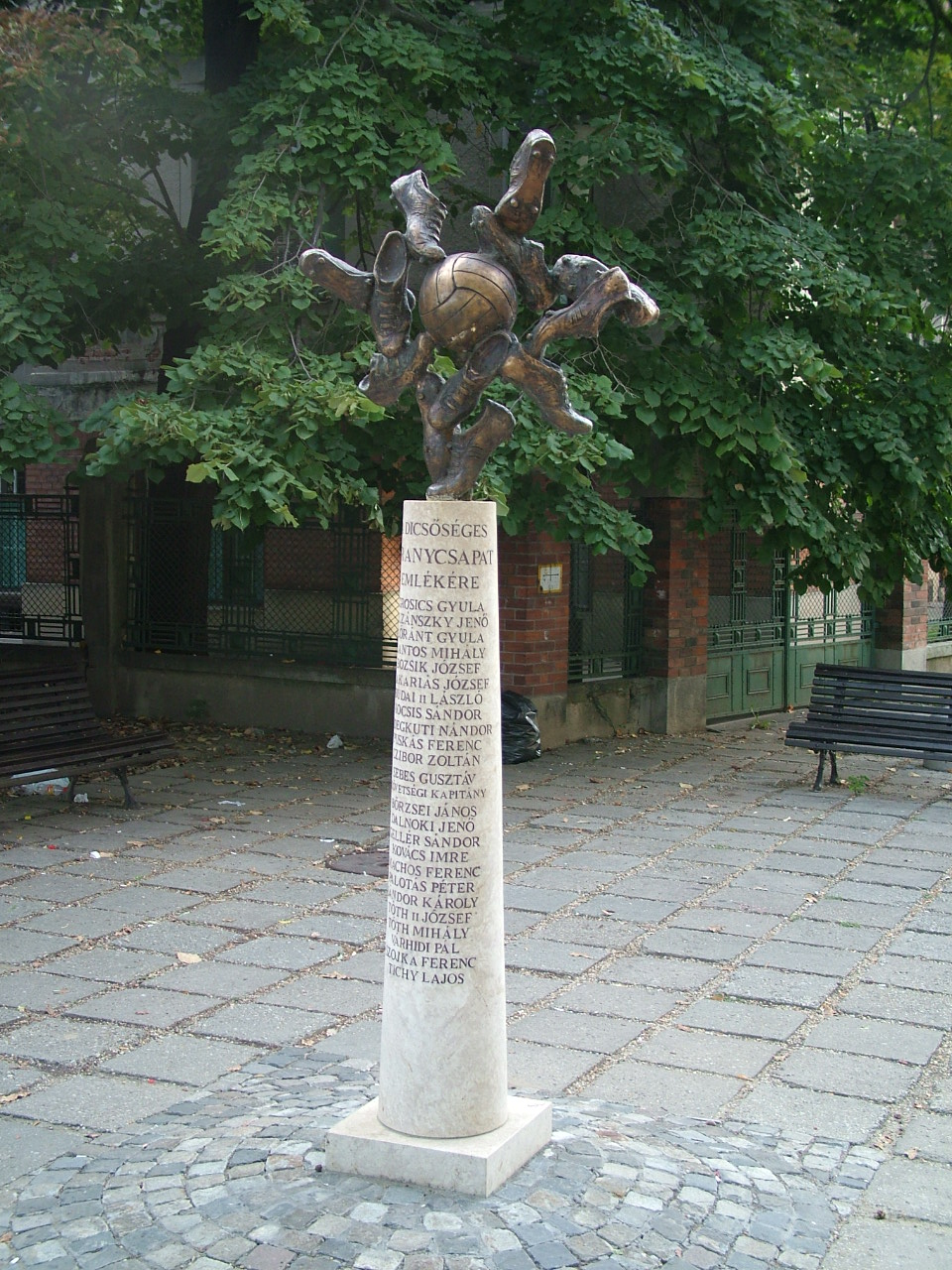 Memorial of the "Aranycsapat" - legendary football (soccer) team of Hungary in Szeged